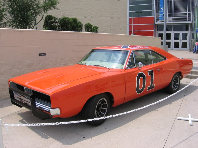 The "General Lee" on public display, one of several Dodge Charger automobiles used in the filming of the American television series, "The Dukes of Hazzard", 1979-1985.